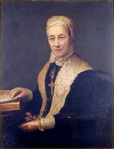 Painted portrait of Elizabeth Twining (1805 - 1889), English botanical illustrator.